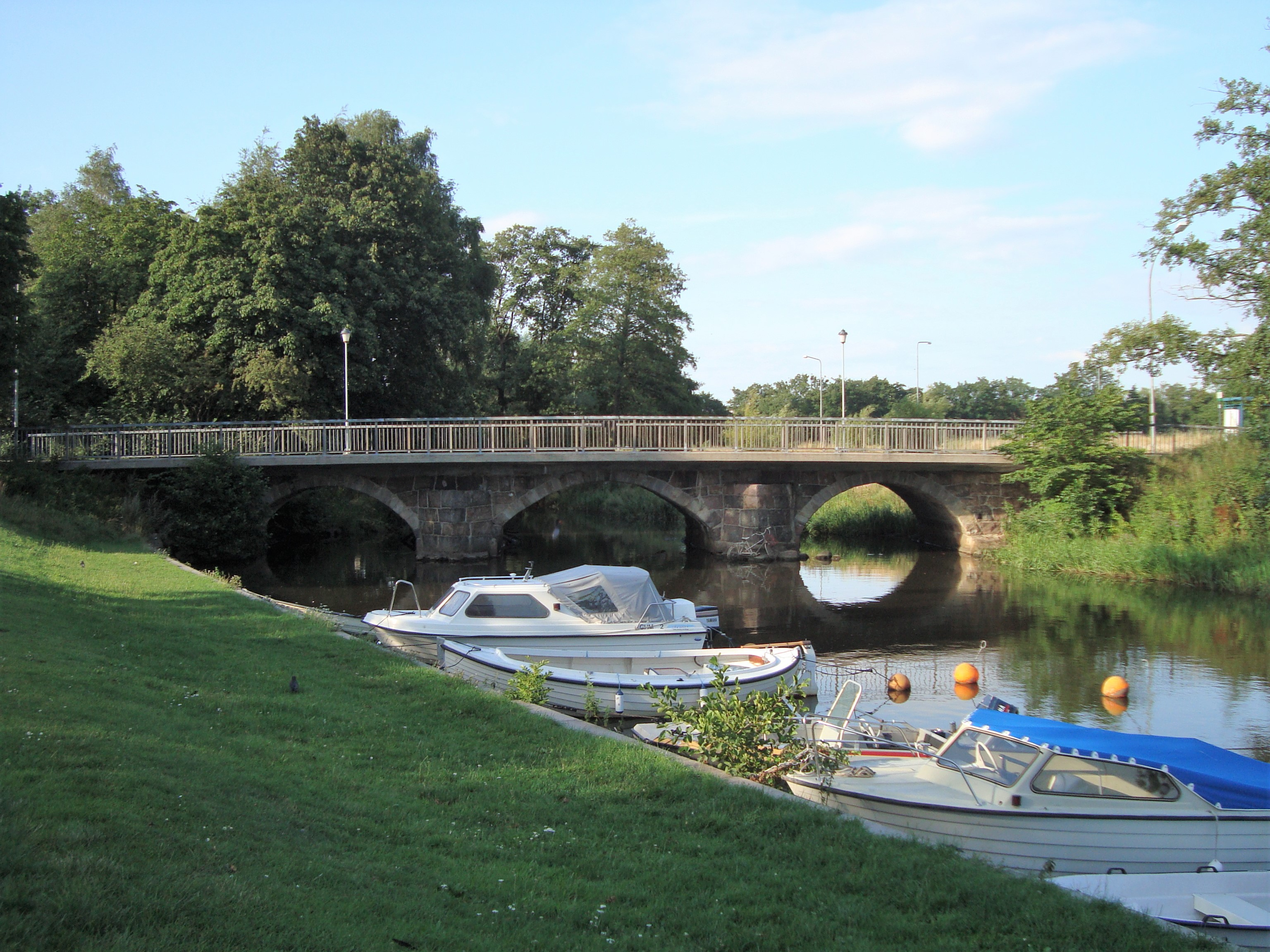 Råå in Helsingborg.